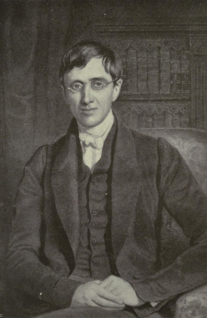 Portrait Miniature of John Henry Newman